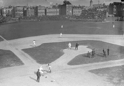 This photo, taken from the Chicago Daily News collection and cropped for aesthetic reasons, shows Opening Day at West Side Park in Chicago, on April 22, 1908. Retired 19th Century Chicago Cubs superstar Cap Anson is on the mound, delivering the traditional ceremonial "first ball" of the season. In 1908, the Cubs would go on to win the second World Series championship.